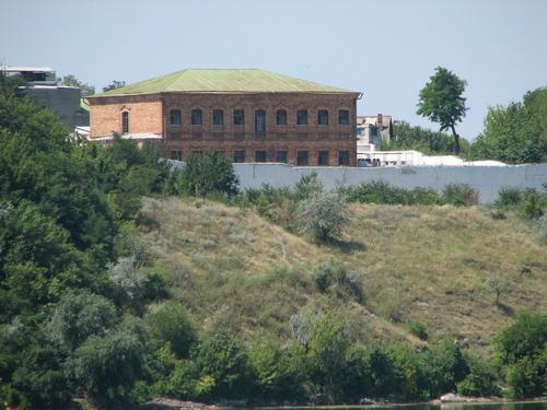 Mykolaiv Remand